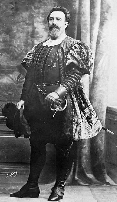 French bass-baritone singer Francisque Delmas (1861-1933) in Patrie ! by Émile Paladilhe.